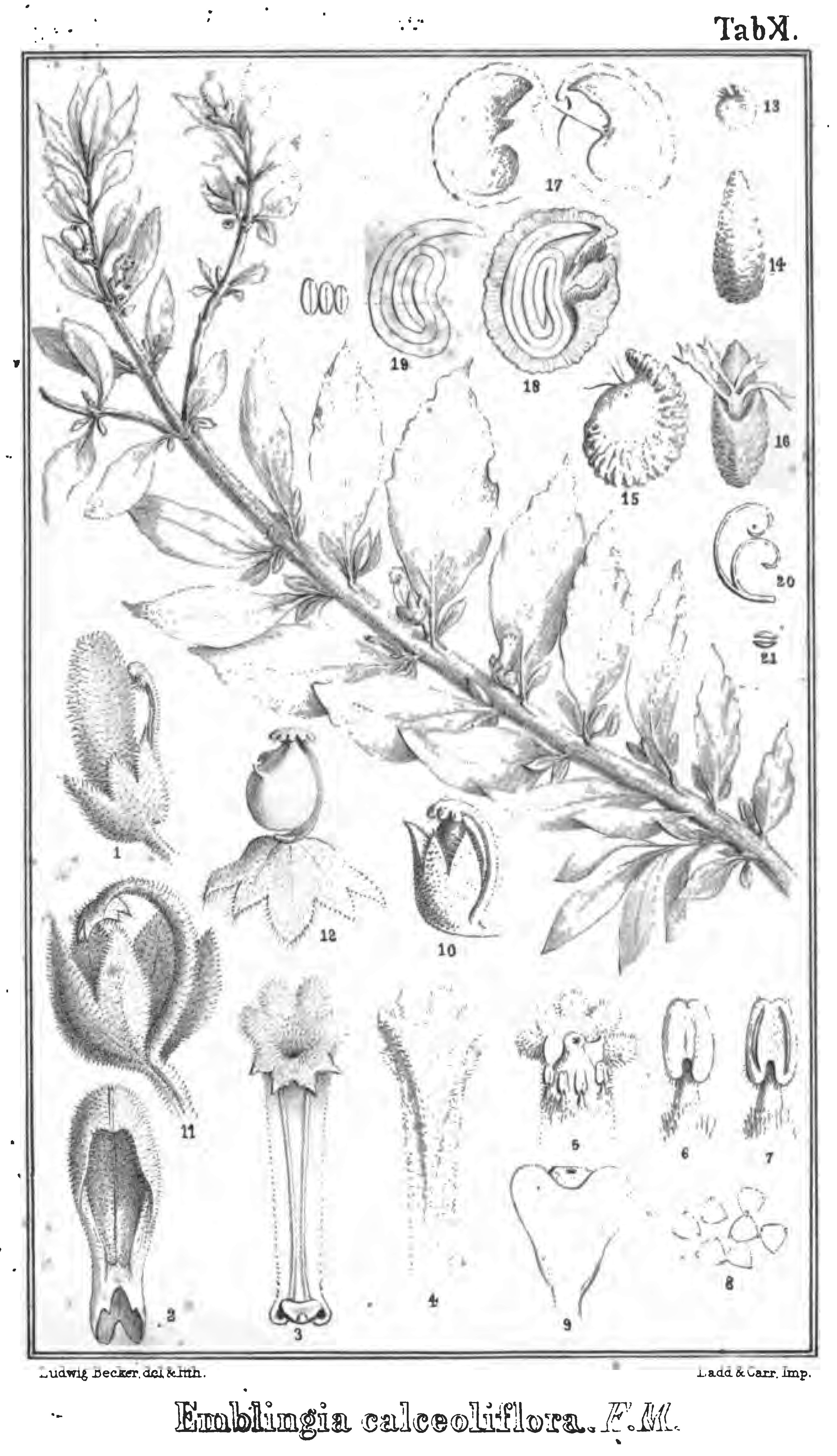 Botanical drawing of Emblingia calceoliflora from Fragmenta phytographiæ Australiæ by Ferdinand Jacob H. Mueller